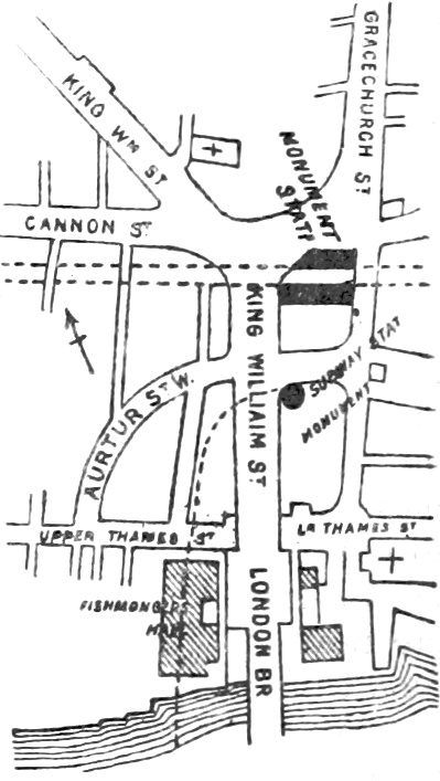 1888 plan of the area around Monument underground station in the City of London, including the proposed location of King William Street tube station. Note that the depiction of the proposed alignment of the tube line is misleading: it in fact ran directly under Arthur Street, not Fishmonger's Hall.